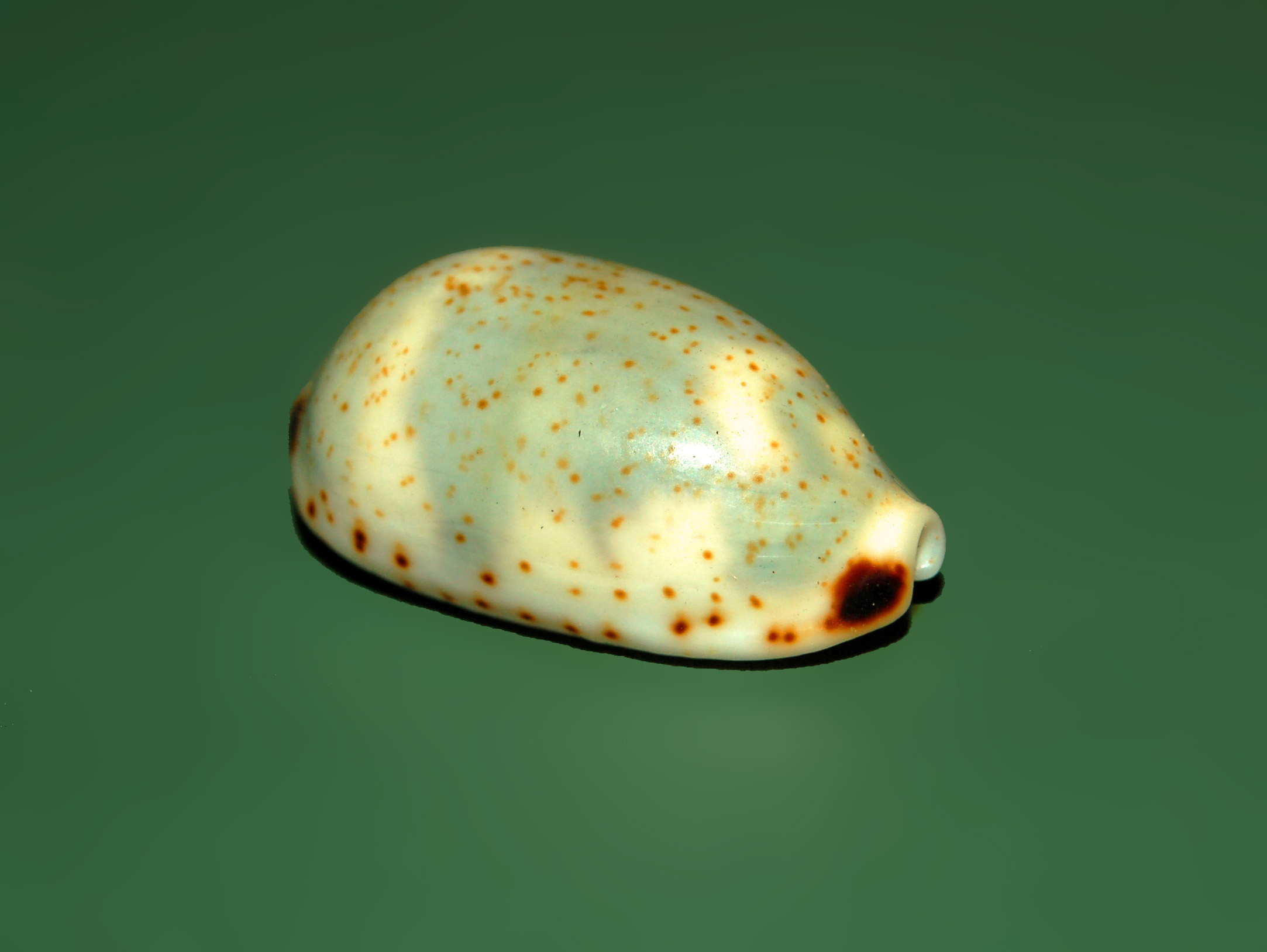 Bistolida kieneri - India